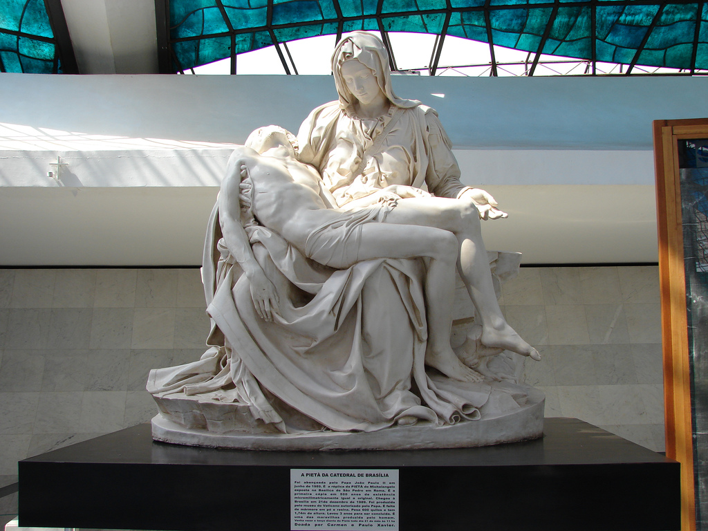 Pietá da Catedral de Brasília.The "Pietá" statue in the National Cathedral of Brasília.